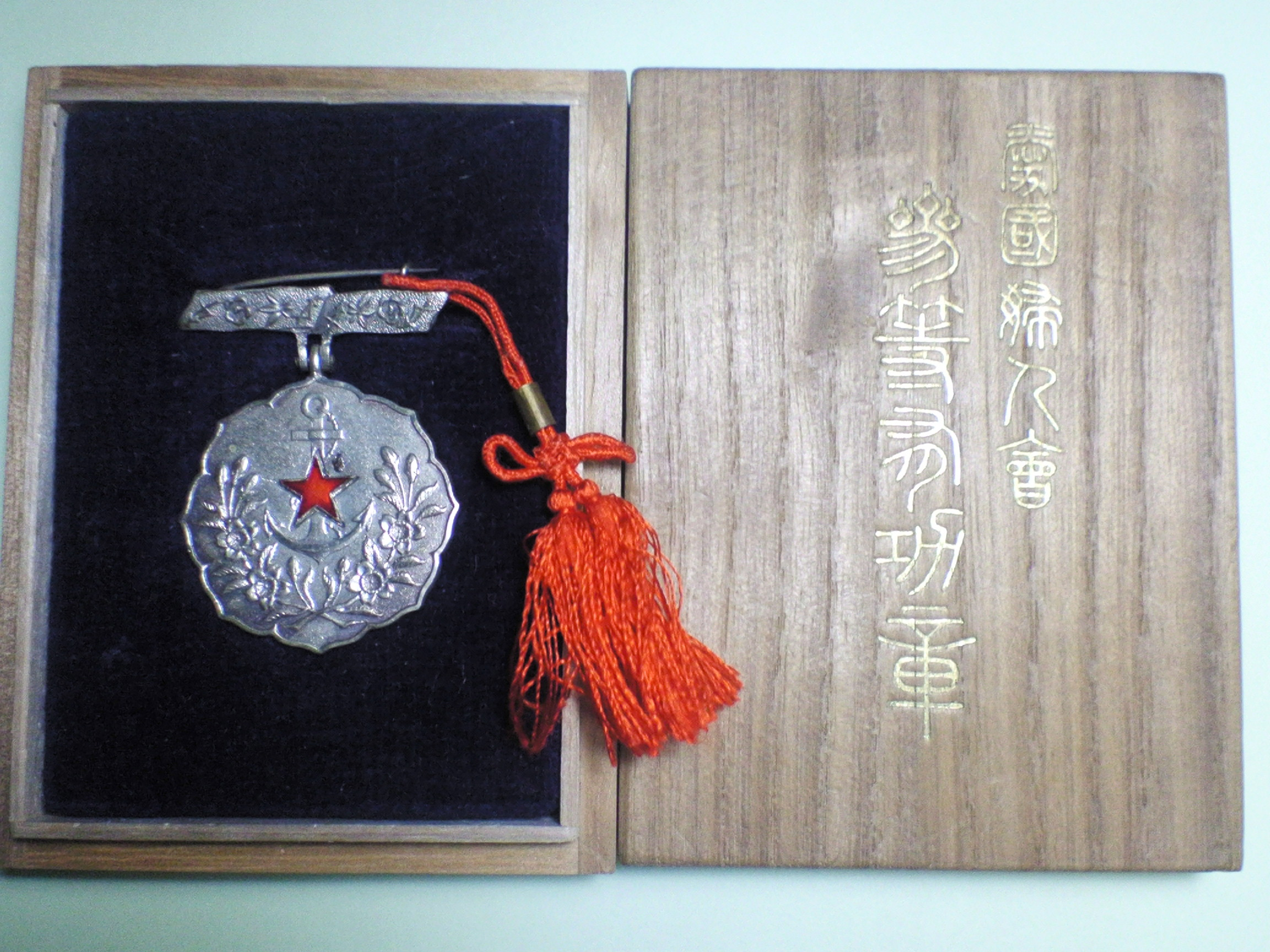 Patriotic Women's Association merit badge 3rd Class.